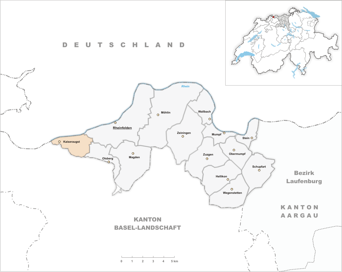 Municipality Kaiseraugst